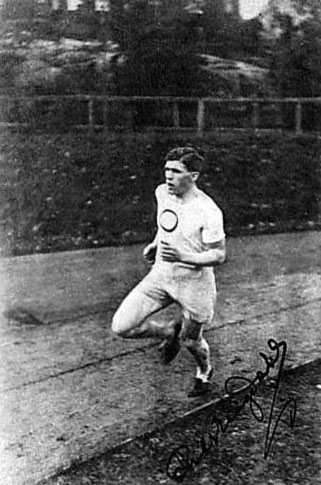 Nils Engdahl. Swedish athlete.